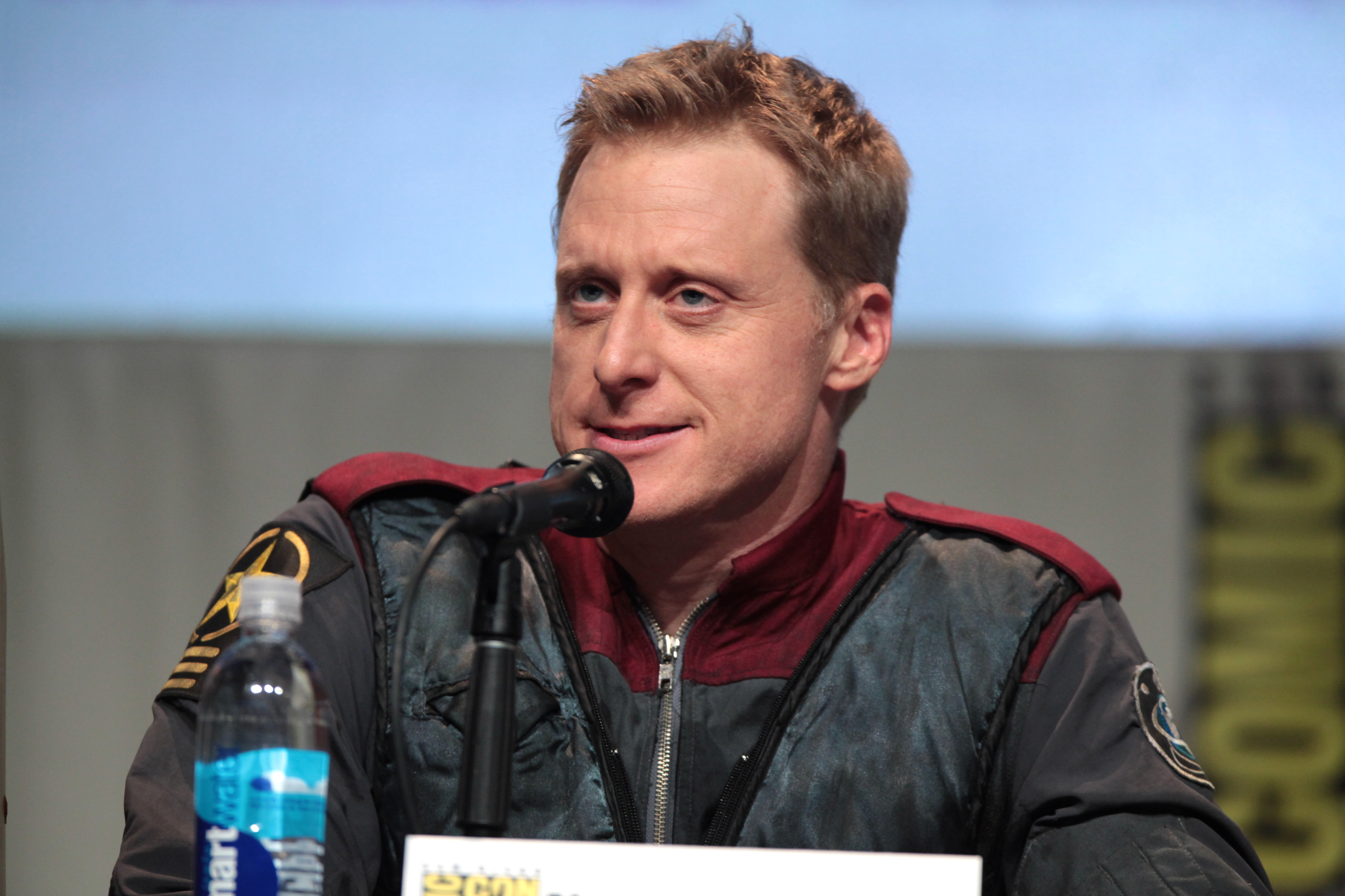 Alan Tudyk speaking at the 2015 San Diego Comic Con International, for "Con Man", at the San Diego Convention Center in San Diego, California.